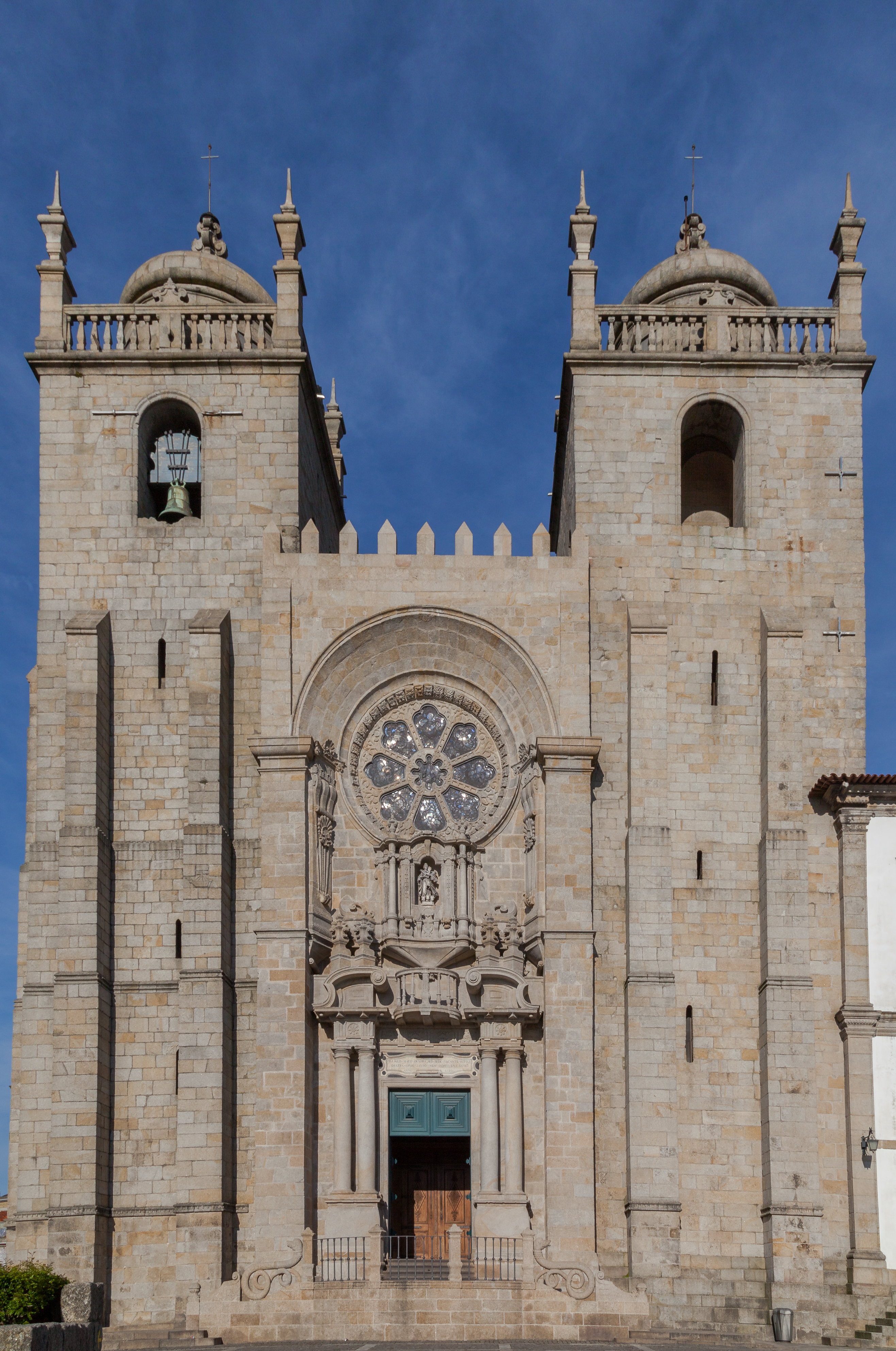 Cathedral of Porto, Portugal